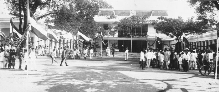 The residency of the governor at Makassar